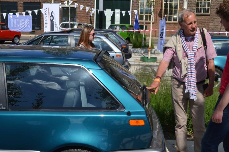 John de Vries was explaing his design of the Volvo 480 in detail at an automobile event on June 16, 2014. The picture shows him next to a Volvo 480, where he explains how the rear wiper was designed.